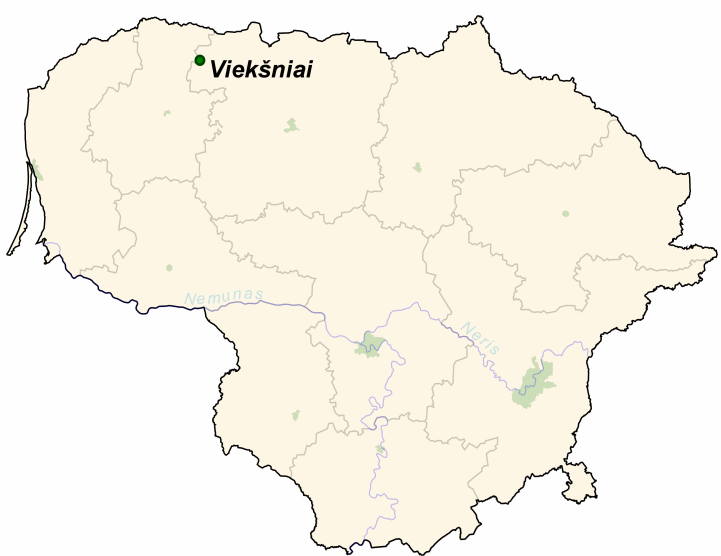 Viekšniai on the map of Lithuania